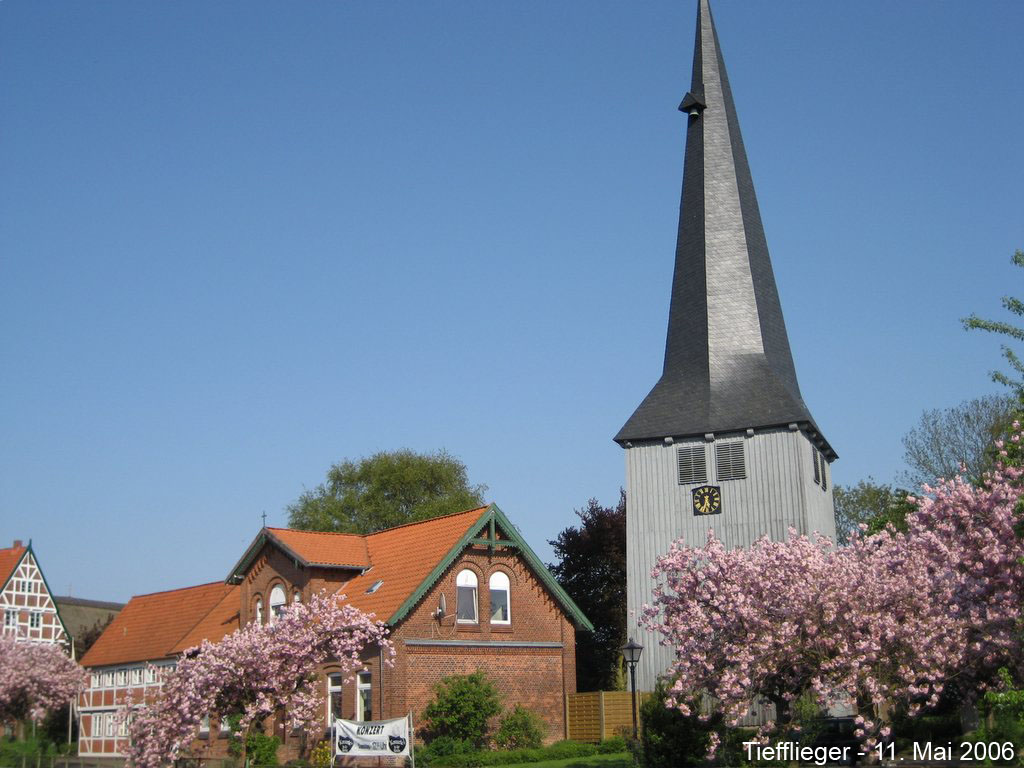 Church of Jork Borstel (Germany)